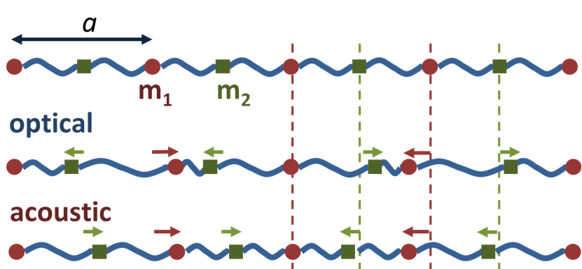 optical and acoustic vibrations in a linear diatomic chain of atoms